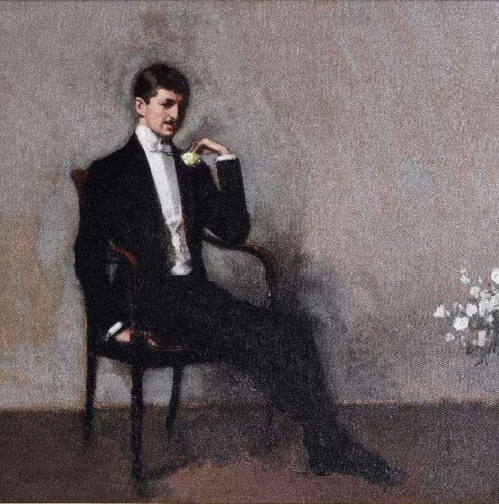 Marc-André Raffalovich (1864-1934) around 1889, portrayed by Sydney Starr (1857-1925).